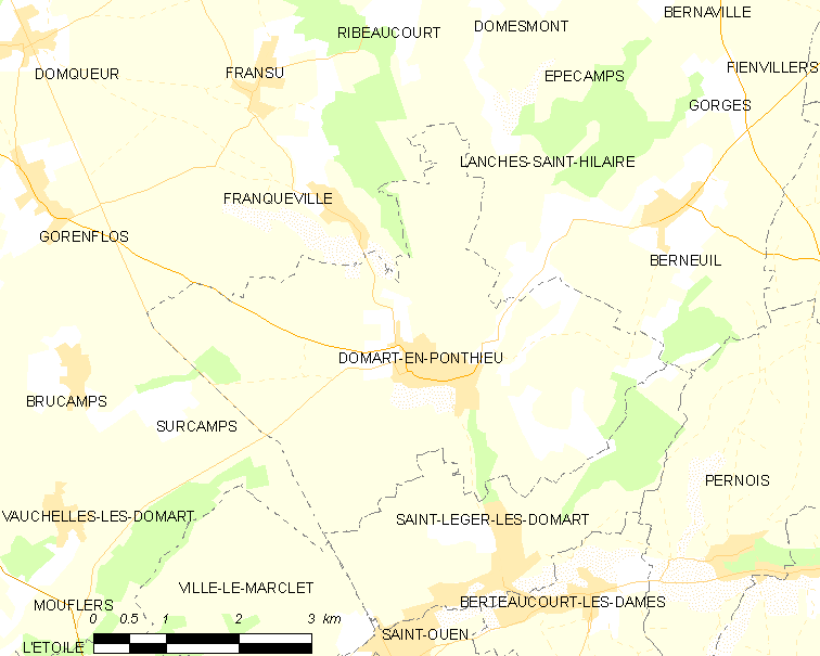 Map of French municipality Domart-en-Ponthieu